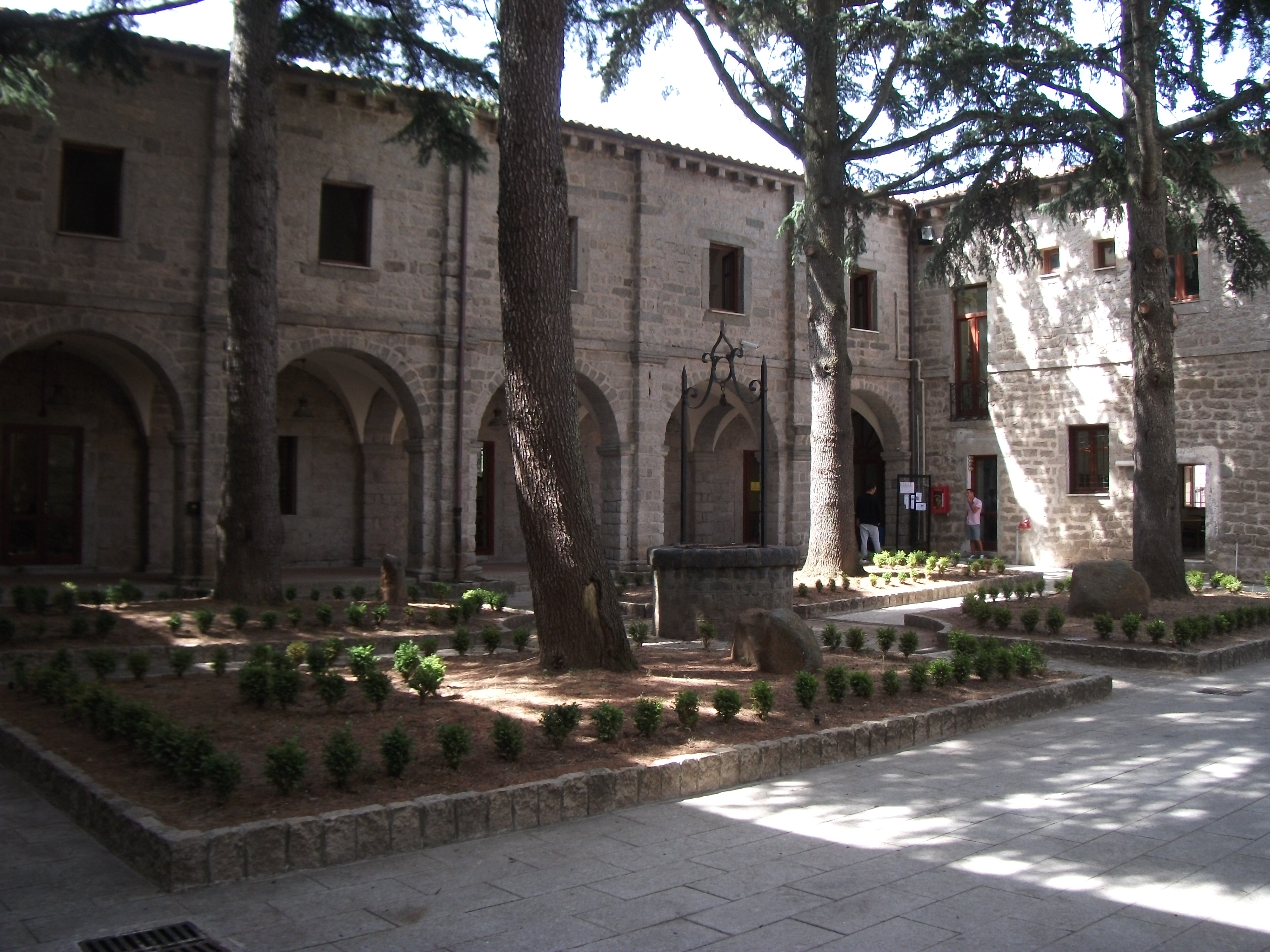 Tempio Pausania, Cloister of the Piarists